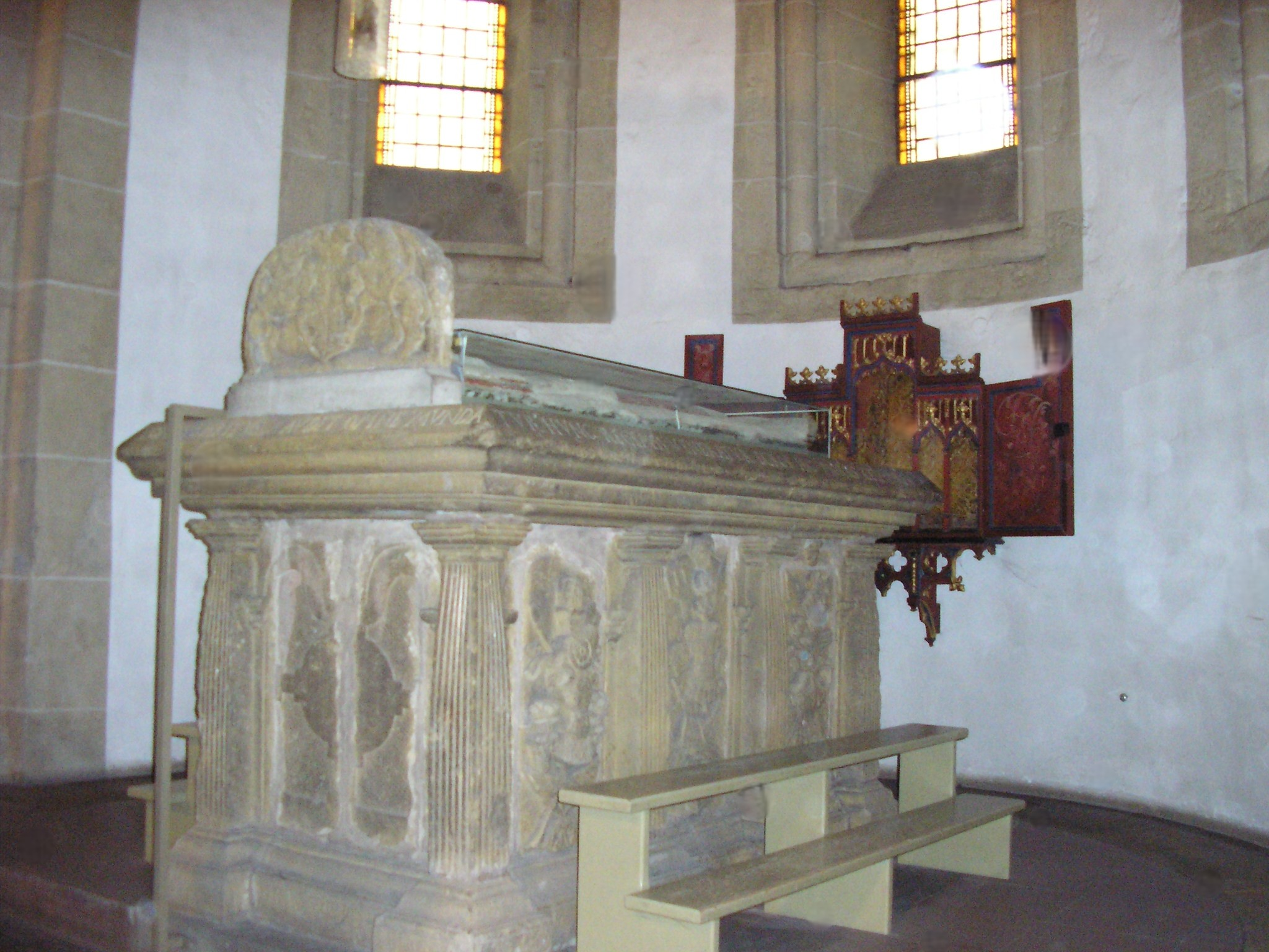 Grave of Widukind in church in town of Enger, District of Herford, North Rhine-Westphalia, Germany.